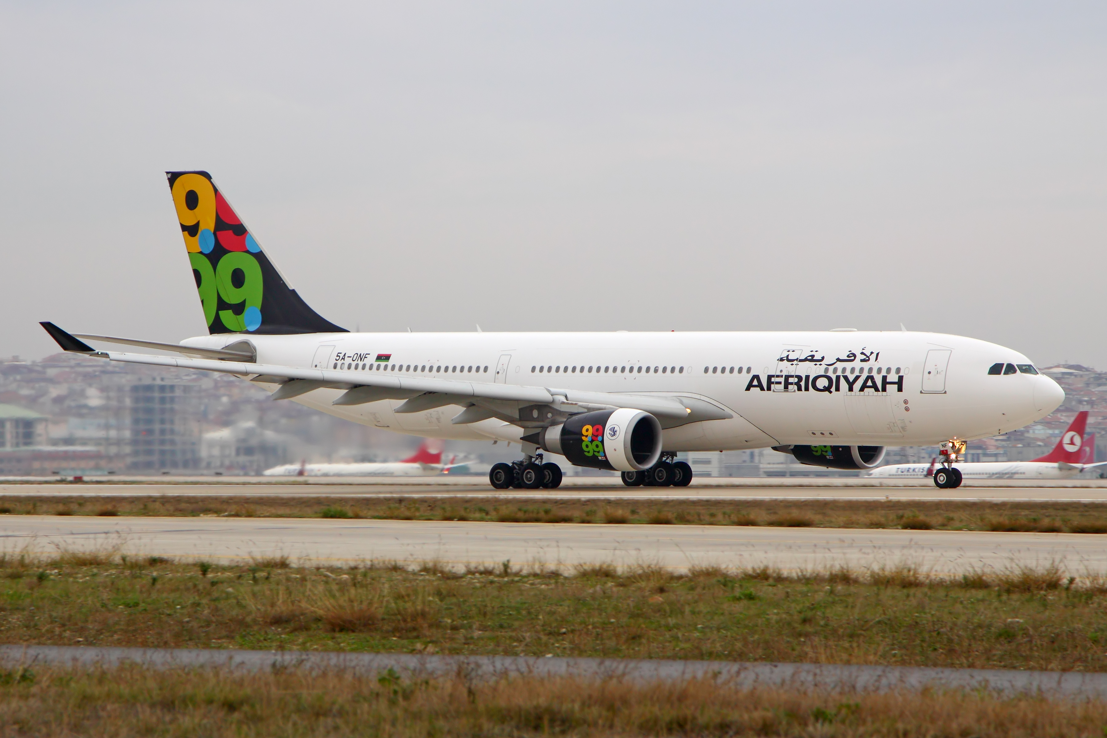 Afriqiyah Airways A330-200 starting takeoff roll at IST. The plane is featuring the new post-Qaddafi flag of Lybia.